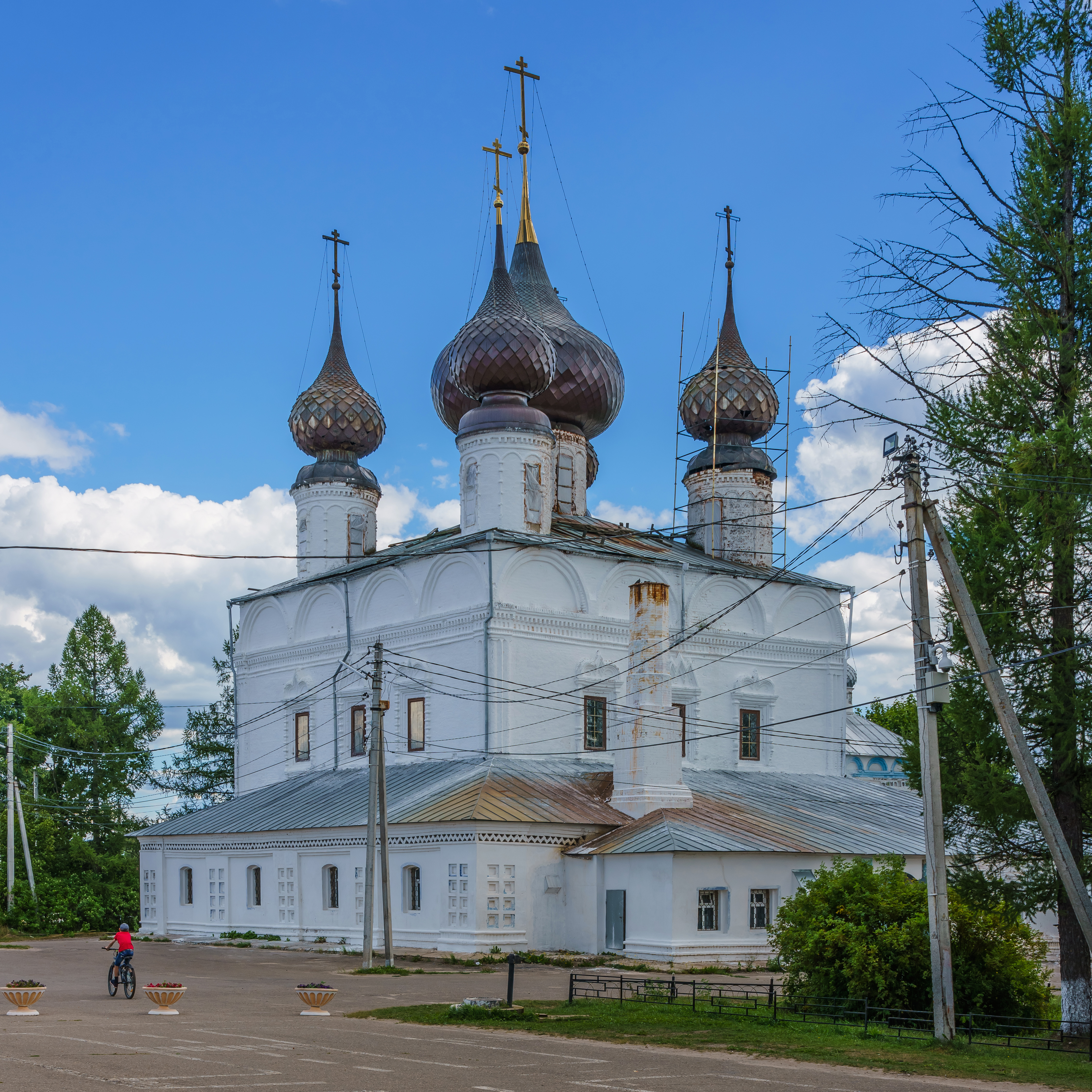 Resurrection Church in Lukh, Ivanovo Oblast, Russia.